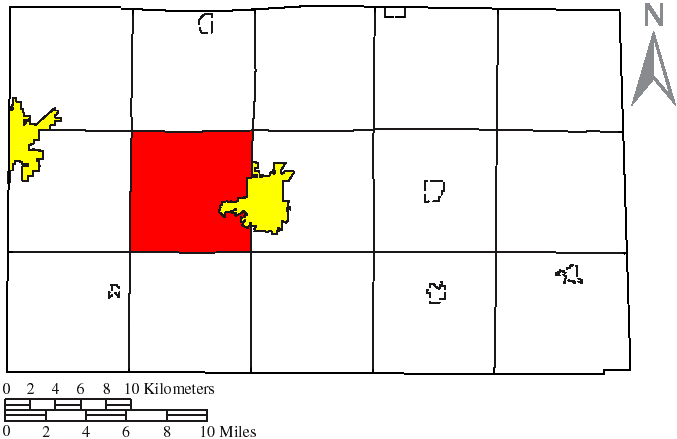 Made by the US Census and modified by myself